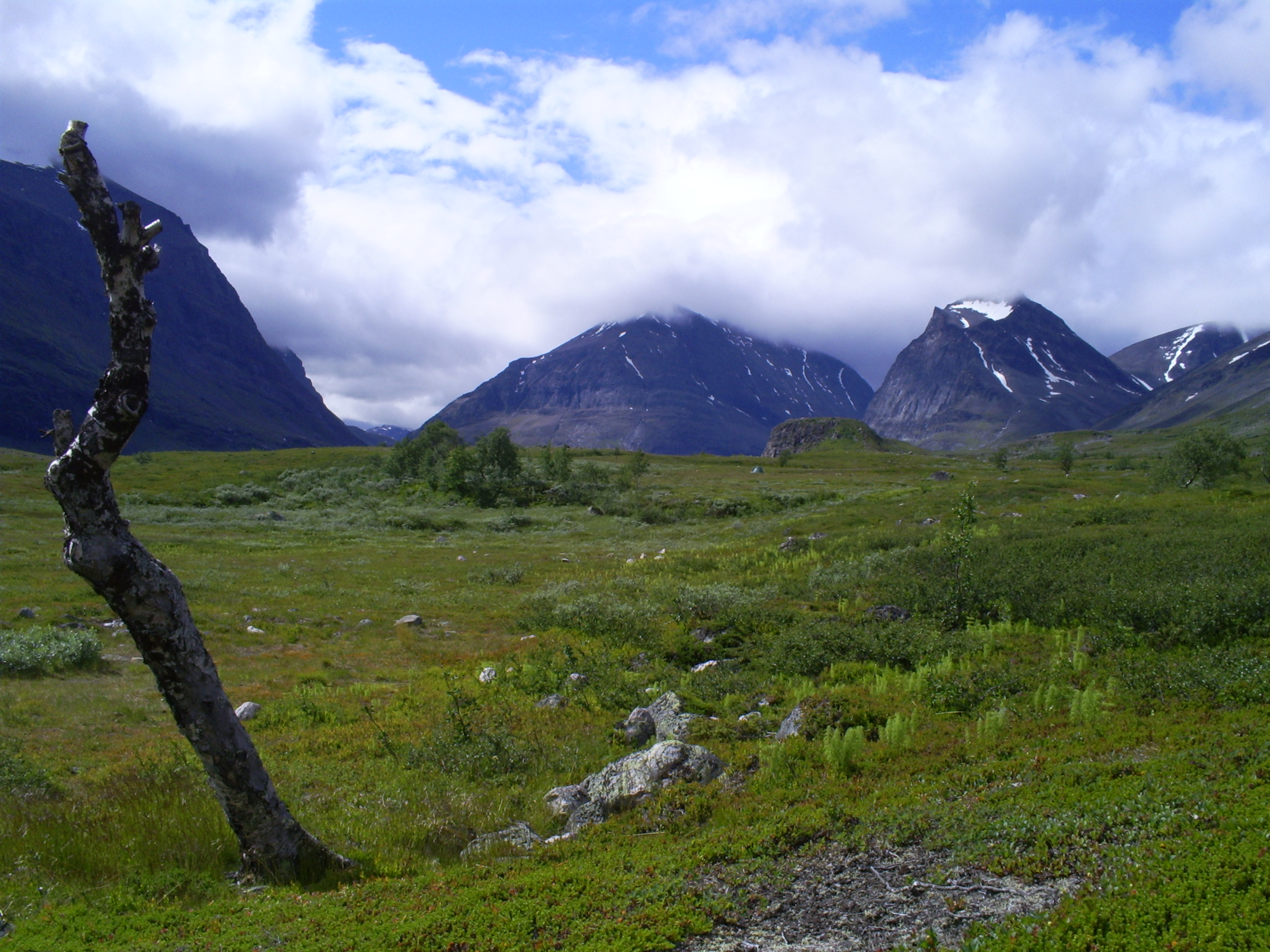 From left: Skárttoaivi (?), Singitjåkka, Tuolpagorni, Vierramvare and the foot of Kebnekaise.